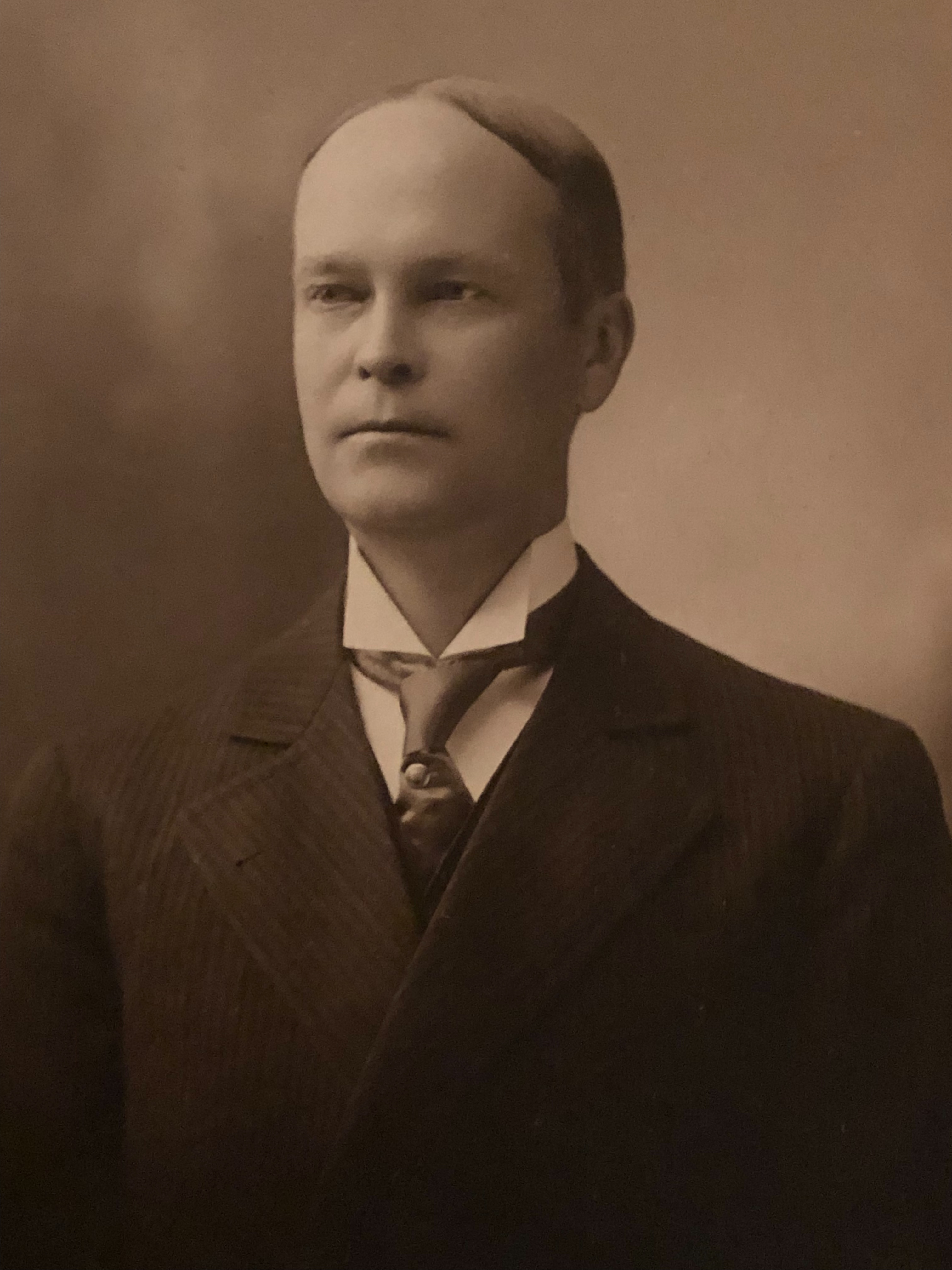 Revised photo of Eugene J. Gibbs